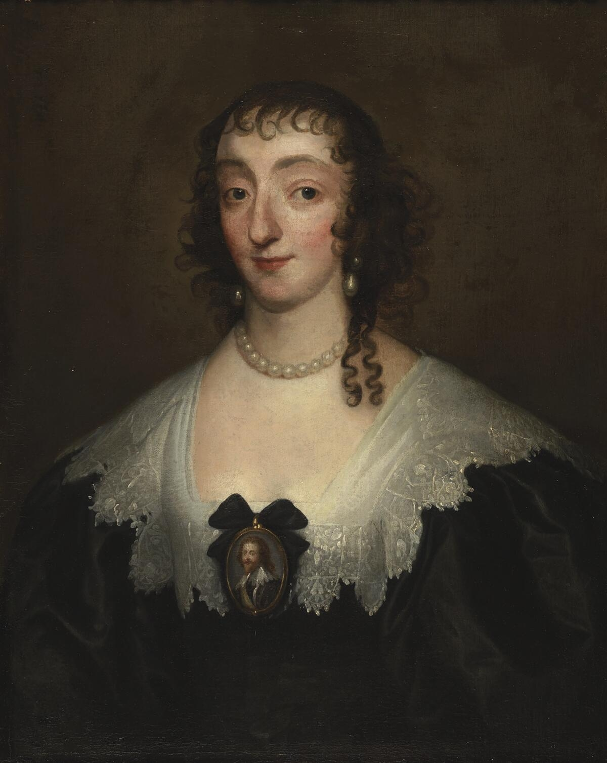 A painting from the Framed Works of Art collection at the National Library of wales.